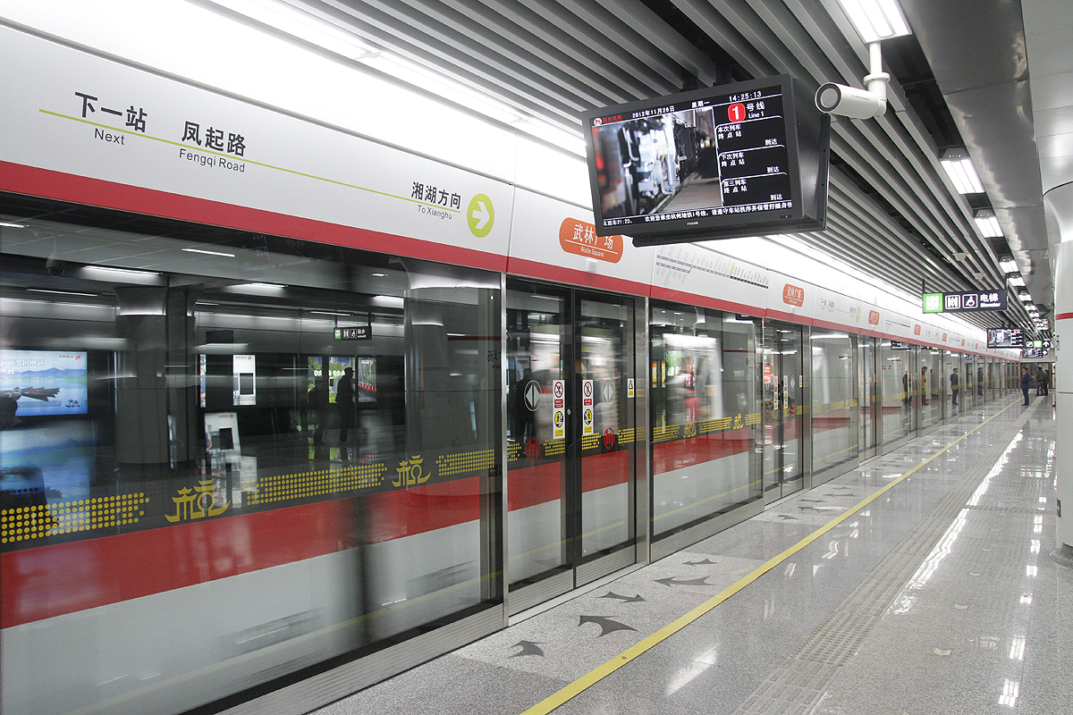 Hangzhou Metro Line 1 Wulin Square Station Platform